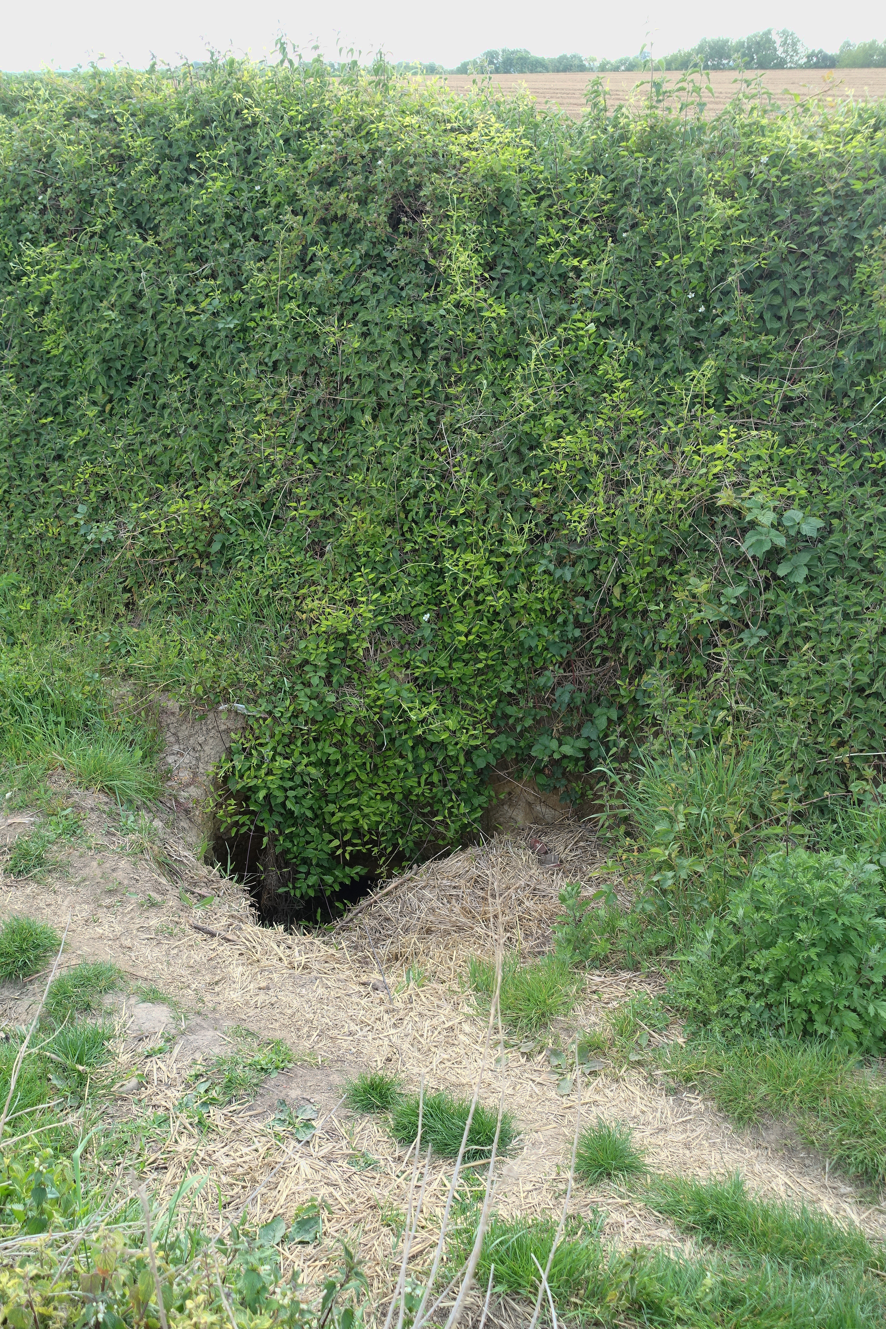 Sinkhole of flint mine near Orp-le-Petit (Belgium). Probably it is a prehistoric mine as there were more found in the neighbourhood.